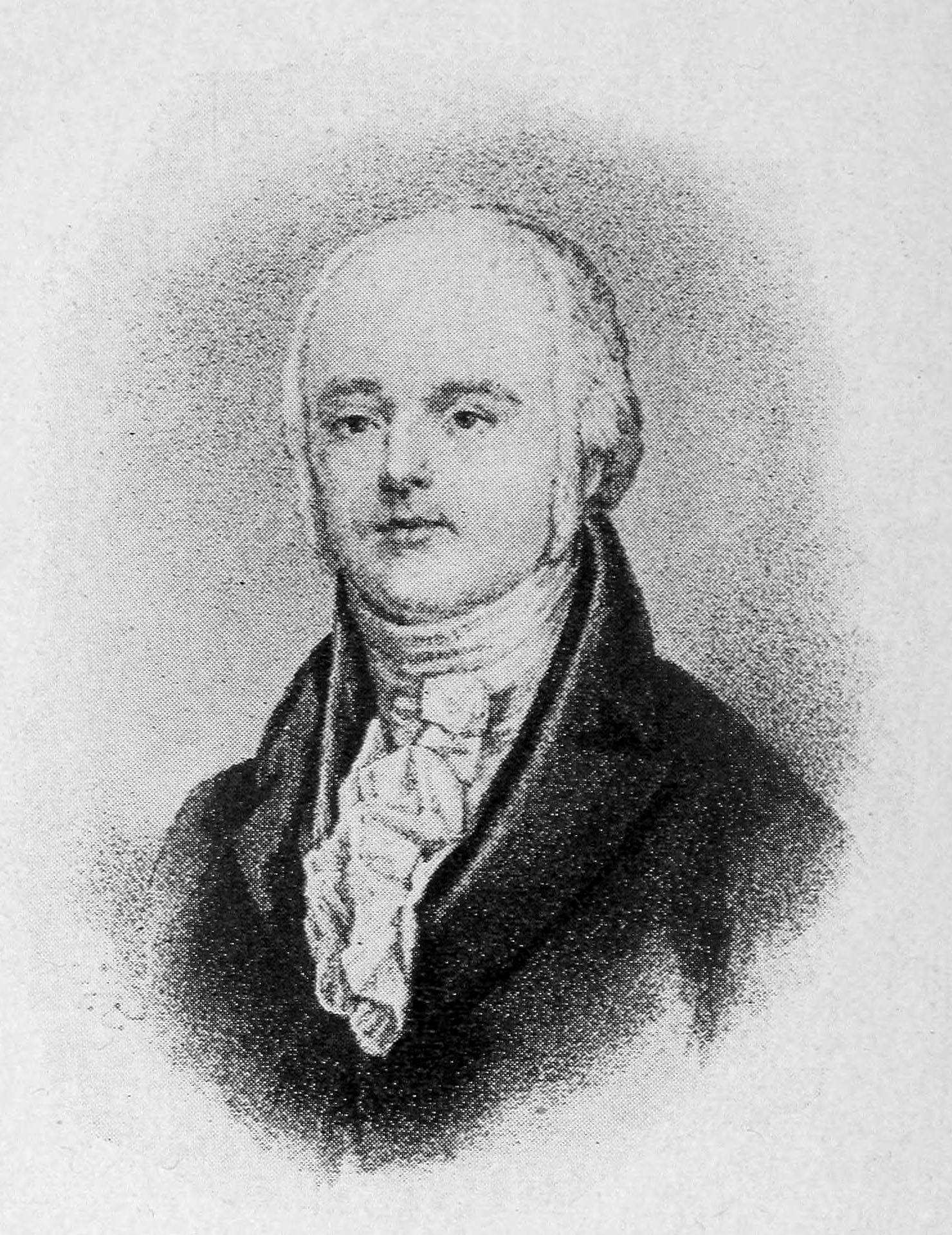 Portrait of United States chemist James Woodhouse